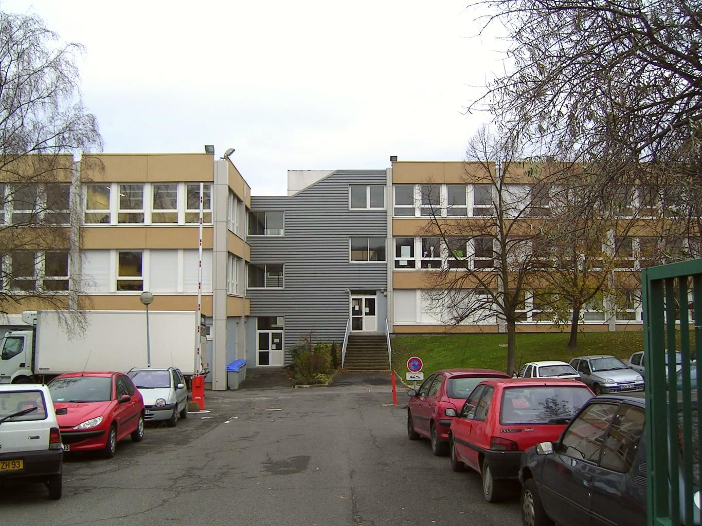 Livry-Gargan (Seine-Saint-Denis) - L'IUFM Décembre 2006 Photo personnelle (own work) de Marianna